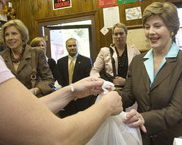 Mrs. Laura Bush makes a purchase at Franklin Cider Mill in Franklin, Mich., Thursday, Sept. 28, 2006. The mill dates back to 1837, the year Michigan was admitted to the Union. White House photo by Shealah Craighead